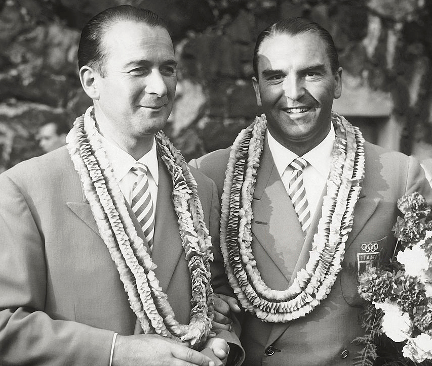 Italian sailors Agostino Straulino and Nicolò Rode after having won a gold medal at the 15th Olympic Games. Helsinki, July 1952